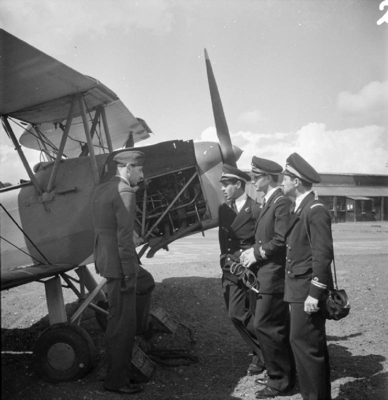 Persian Airmen Train in Britain, 1944 Three Persian airmen chat to a member of the Royal Air Force beside an aircraft. The Persian men are Lieutenant Mohamad Khatami from Rasht, Lieutenant Ahmed-Ali Jahanbin from Tehran and Lieutenant Nasrollah Shahrokay, also from Tehran. According to the original caption, Lt Shahrokay's father is Iranian Minister in Moscow.